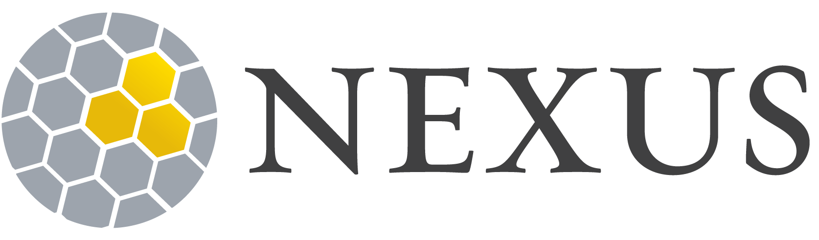 NEXUS logo.